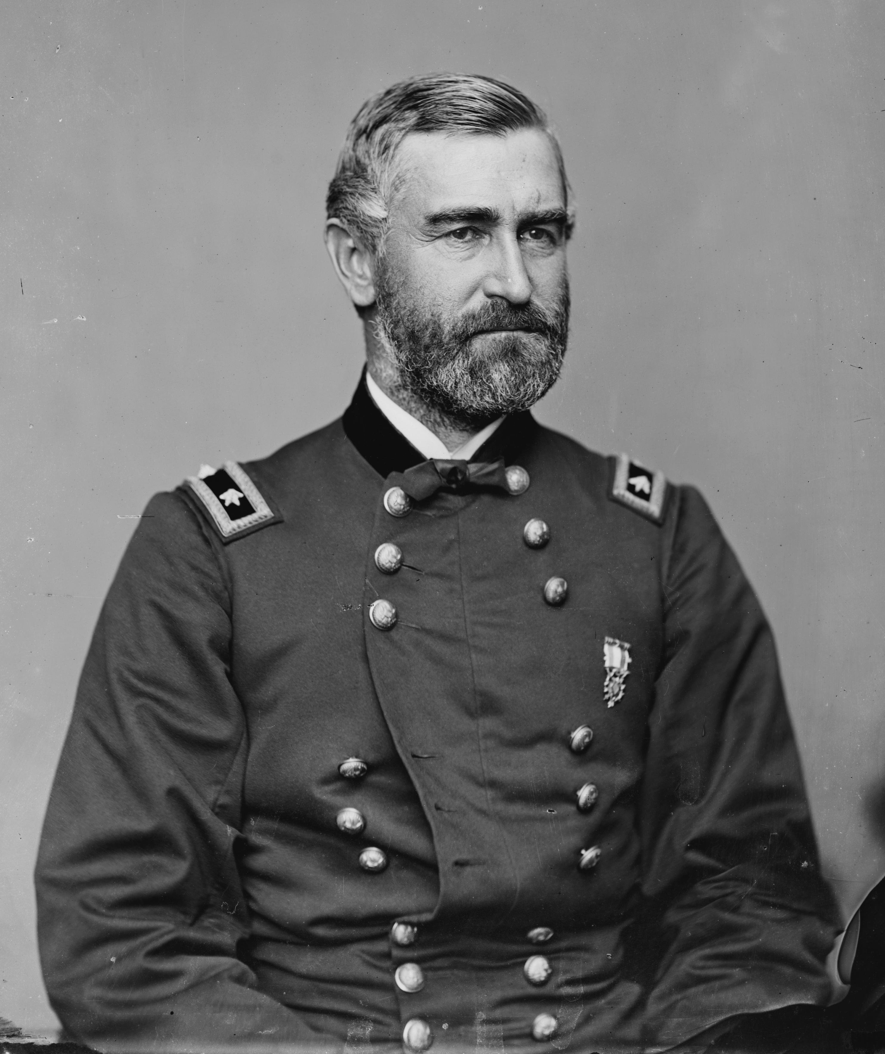 Gershom Mott. Library of Congress description: "Gen. Gershom Mott, U.S.A."